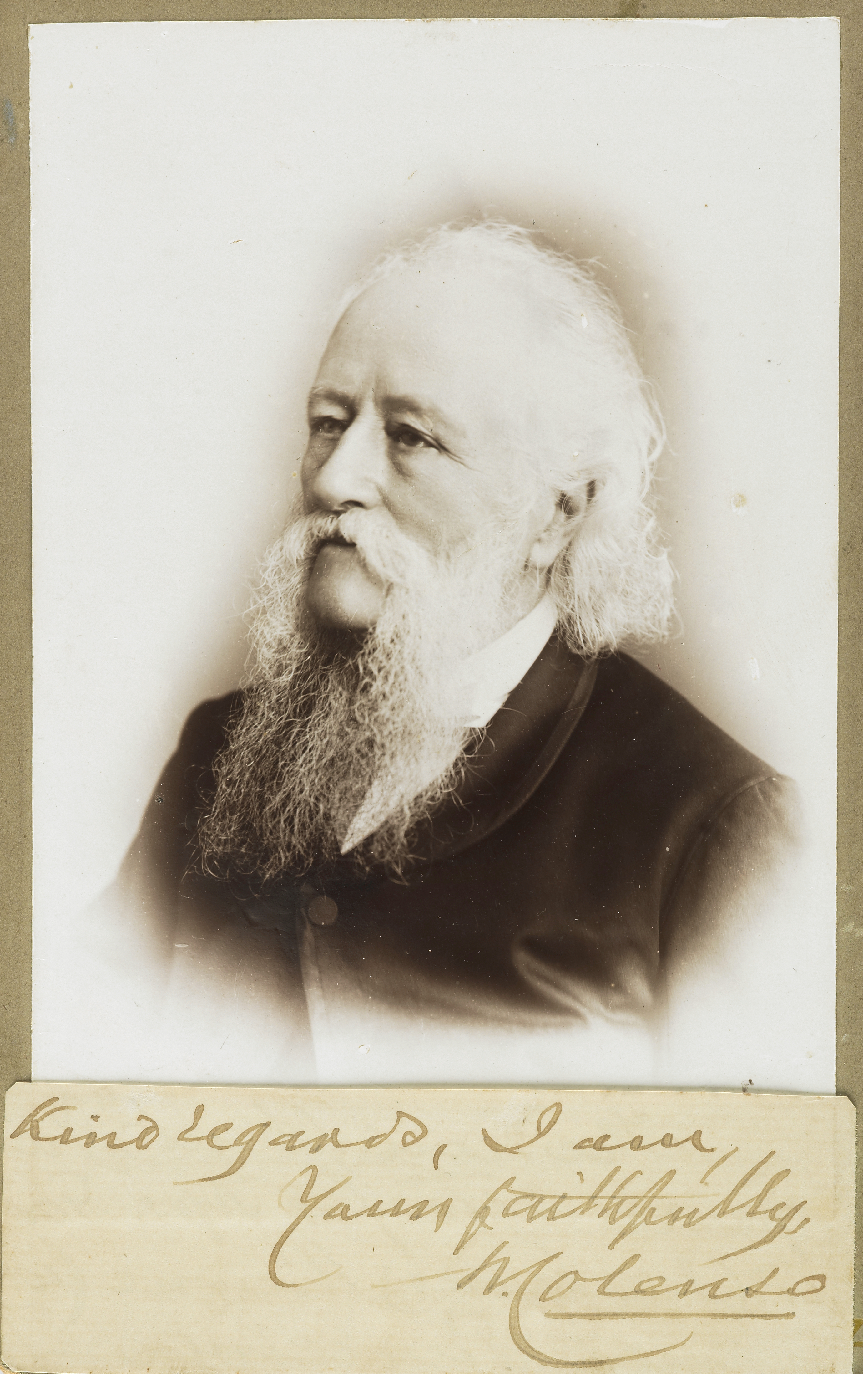 William Colenso (1811–1899), english born, New Zealand printer, botanist, naturalist, missionary, politician